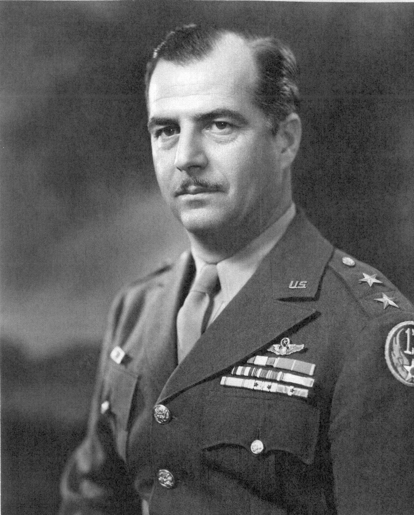 Major General Paul Bernard Wurthsmith